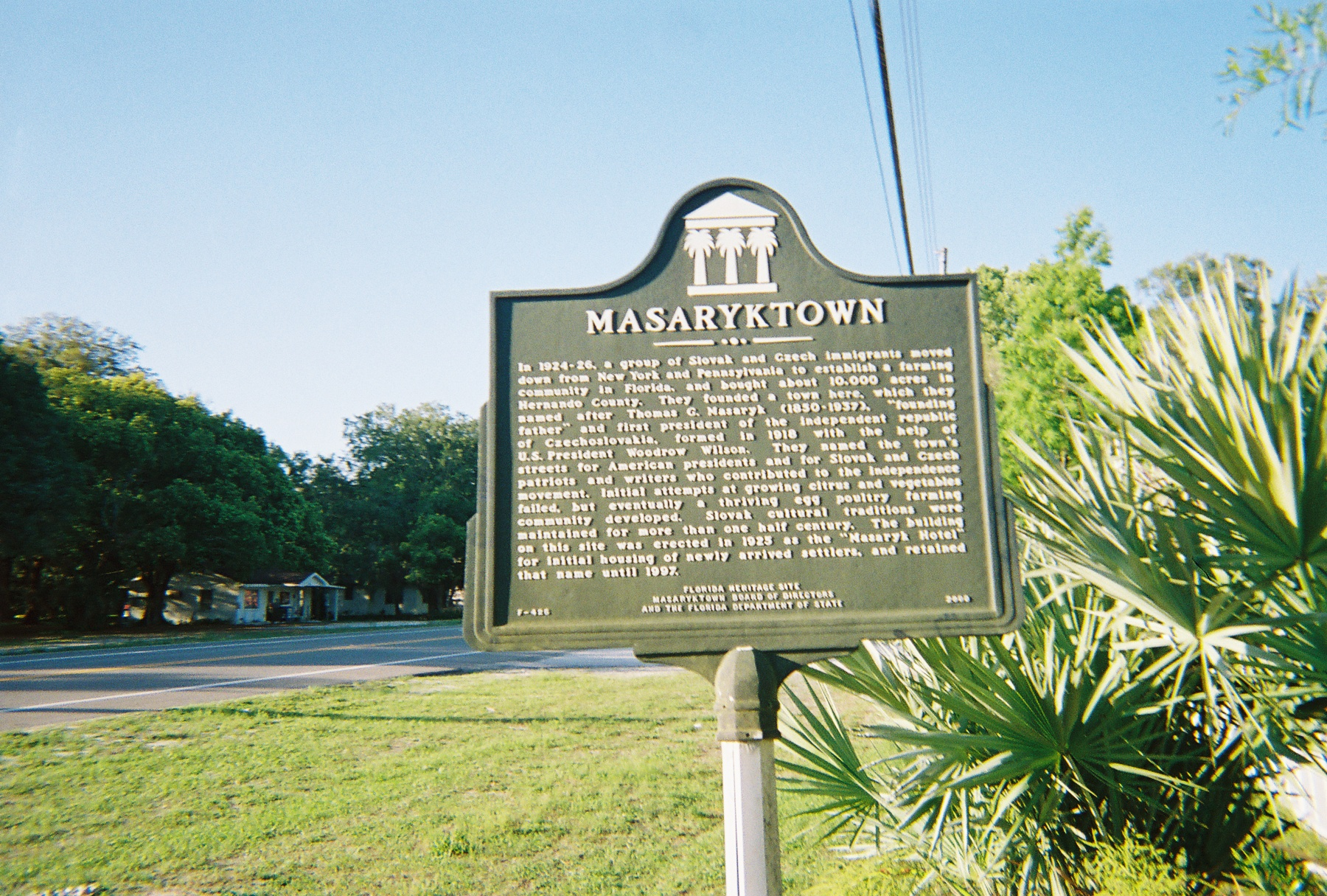 Plaque on the history of Masaryktown, Florida on the northeast corner of U.S. Route 41 and Wilson Boulevard.